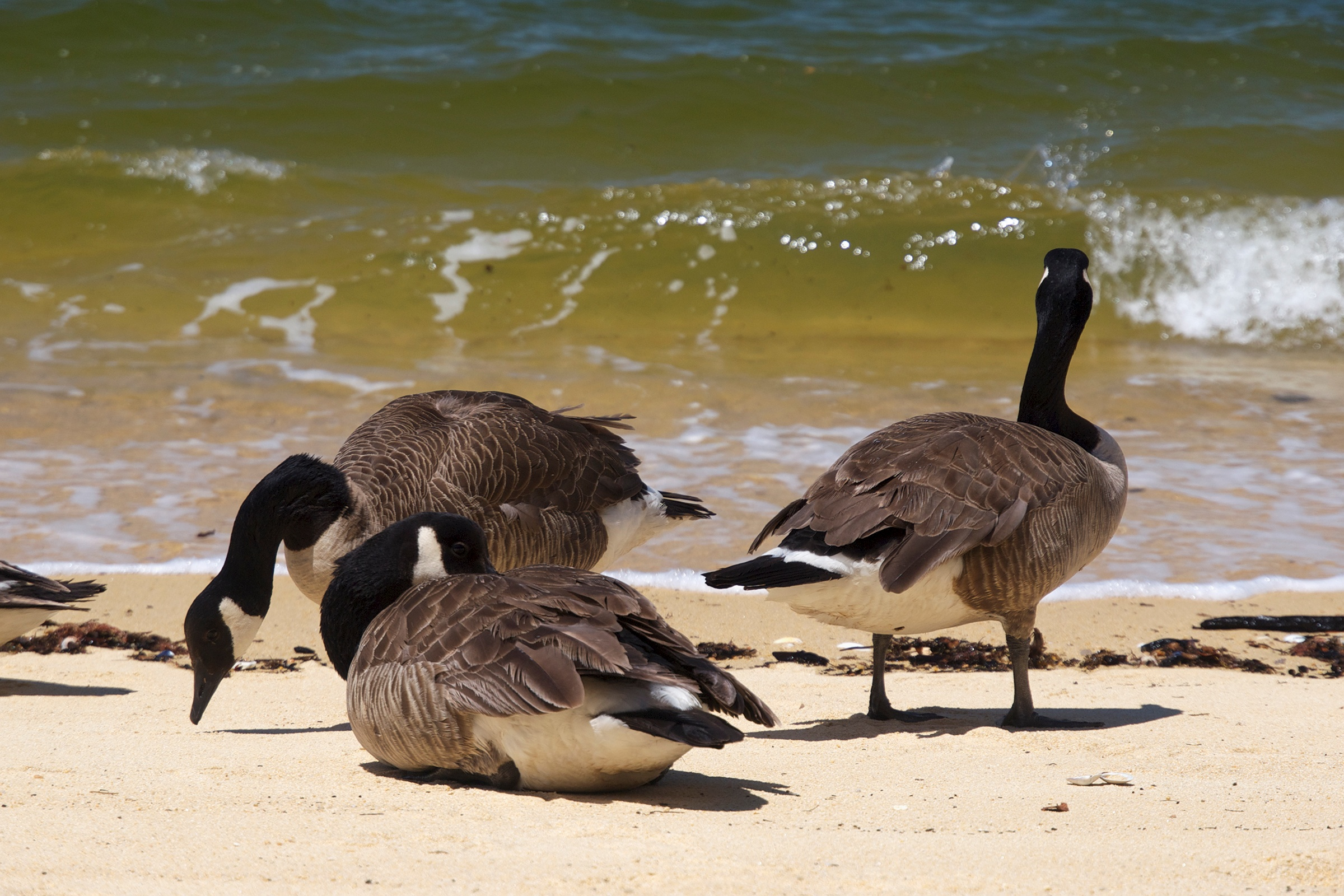 Canada Gooses (Branta canadensis); Abel Tasman National Park, New Zealand